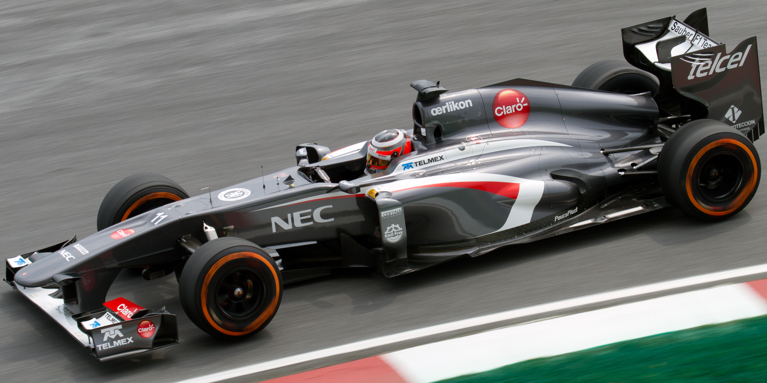 Formula One 2013 Rd.2 Malaysian GP: Nico Hülkenberg (Sauber) during the first practice session on Friday.